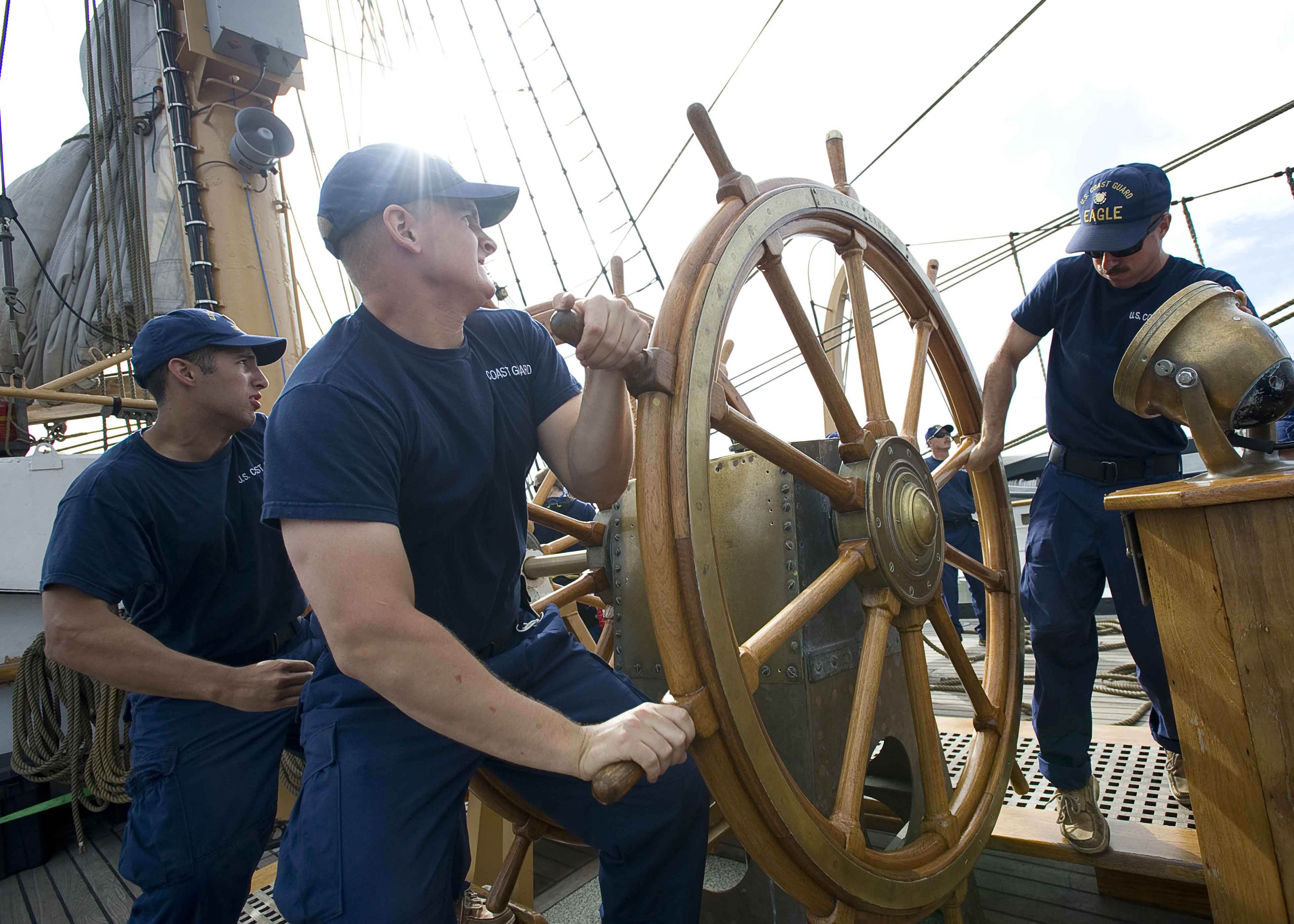 Seaman John Colucci (right) leads third class cadets Paul Puddington and Nicholas Trefonides on the helm of the Coast Guard Cutter Eagle, May 23. Cadets work with crew to earn their helm and lookout qualification during their cadet training deployment aboard Eagle. (U.S. Coast Guard photo by Petty Officer 2rd Class Erik Swanson)